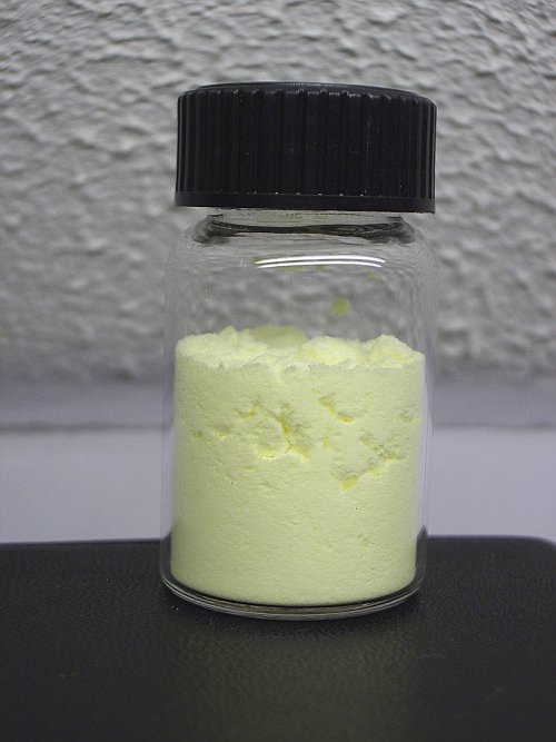 Sulfur powder